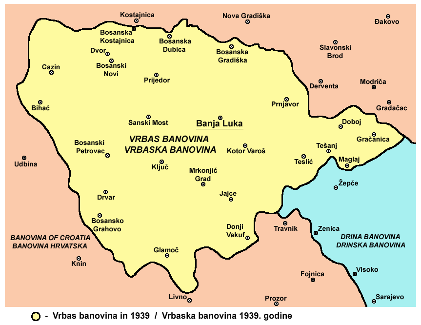 Vrbas banovina (province) of the Kingdom of Yugoslavia in 1939.